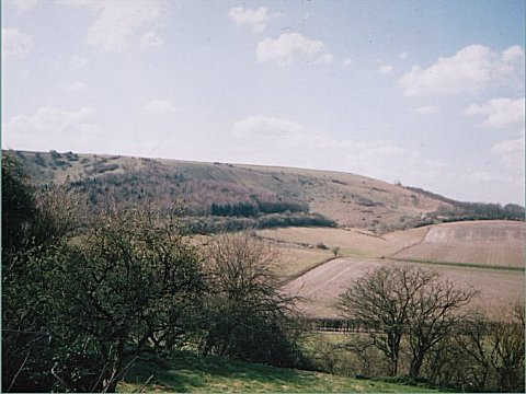 Watership Down, taken from the north-east. Photo taken by Loganberry, 31 March 2004.